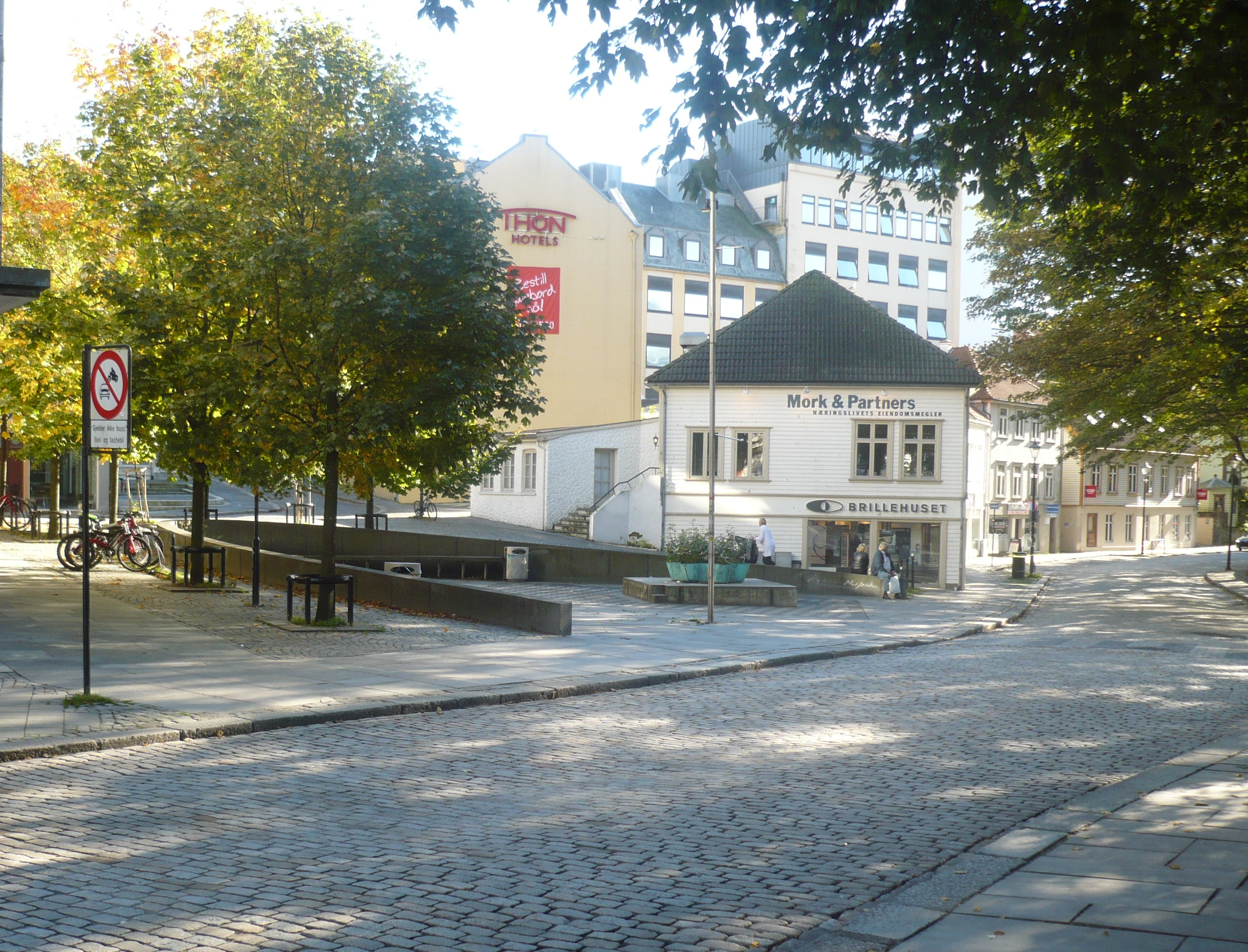 Obstfelders park in Stavanger